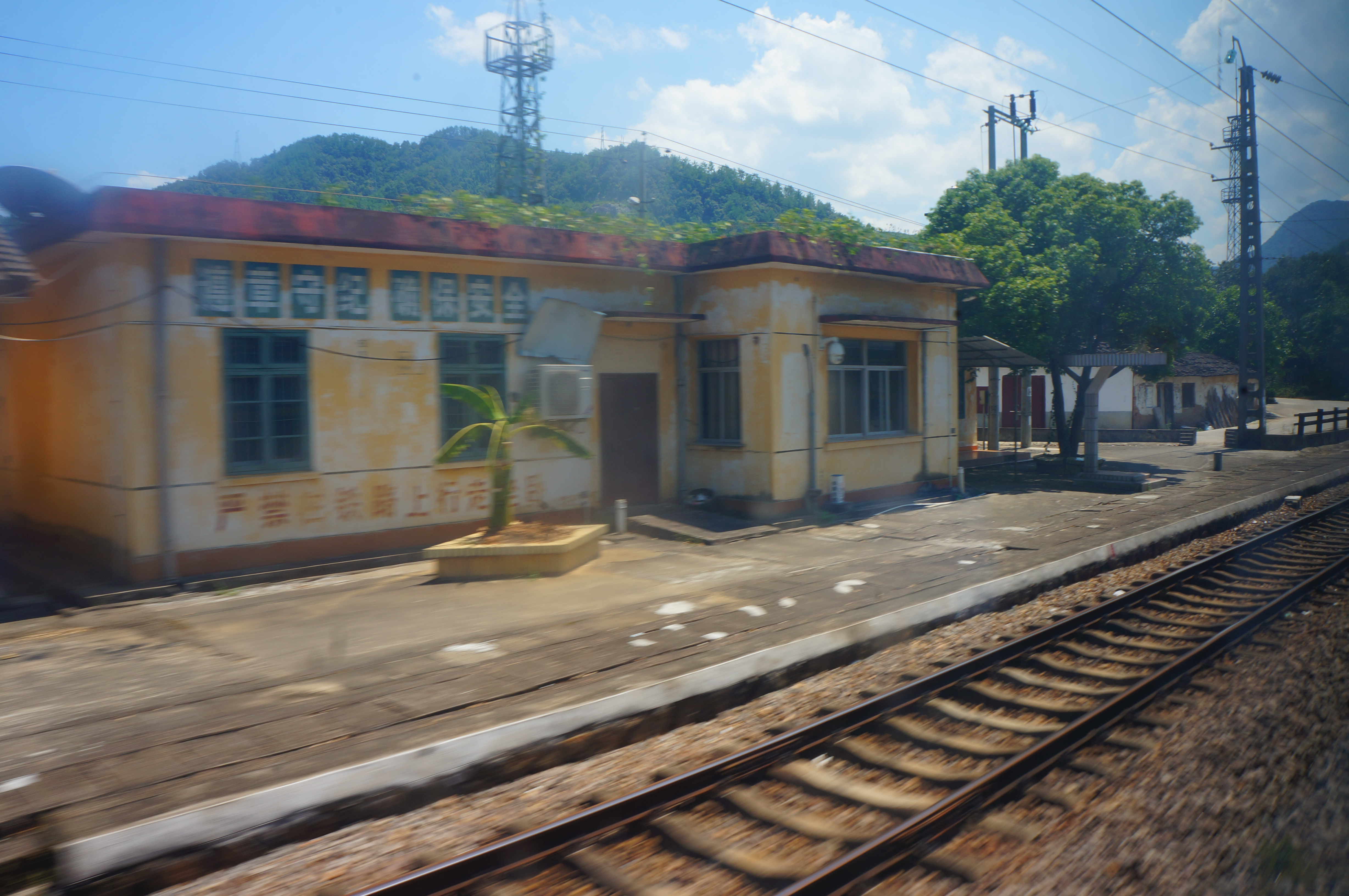 Iah Khi Station. Next Station, Lou Chi